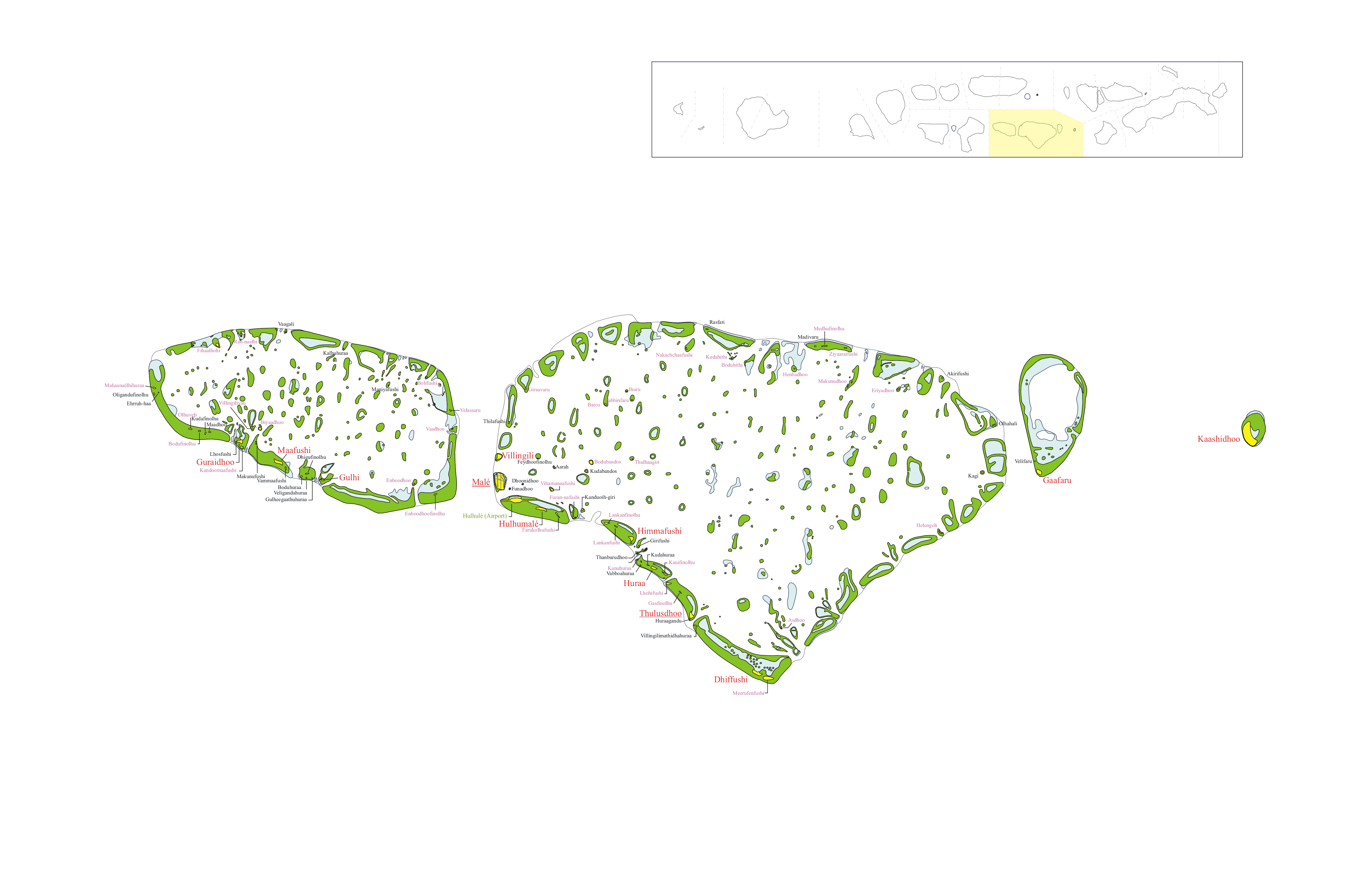 Summary Map of Kaafu_Atoll Map originally vector'ed by Hassan Waheed, Aabaadhuge of Thinadhoo island. Note: This section of map was extracted and its text was romanized by Oblivious. Special assitance by Waddey and Zuru Converted to PNG by helix84